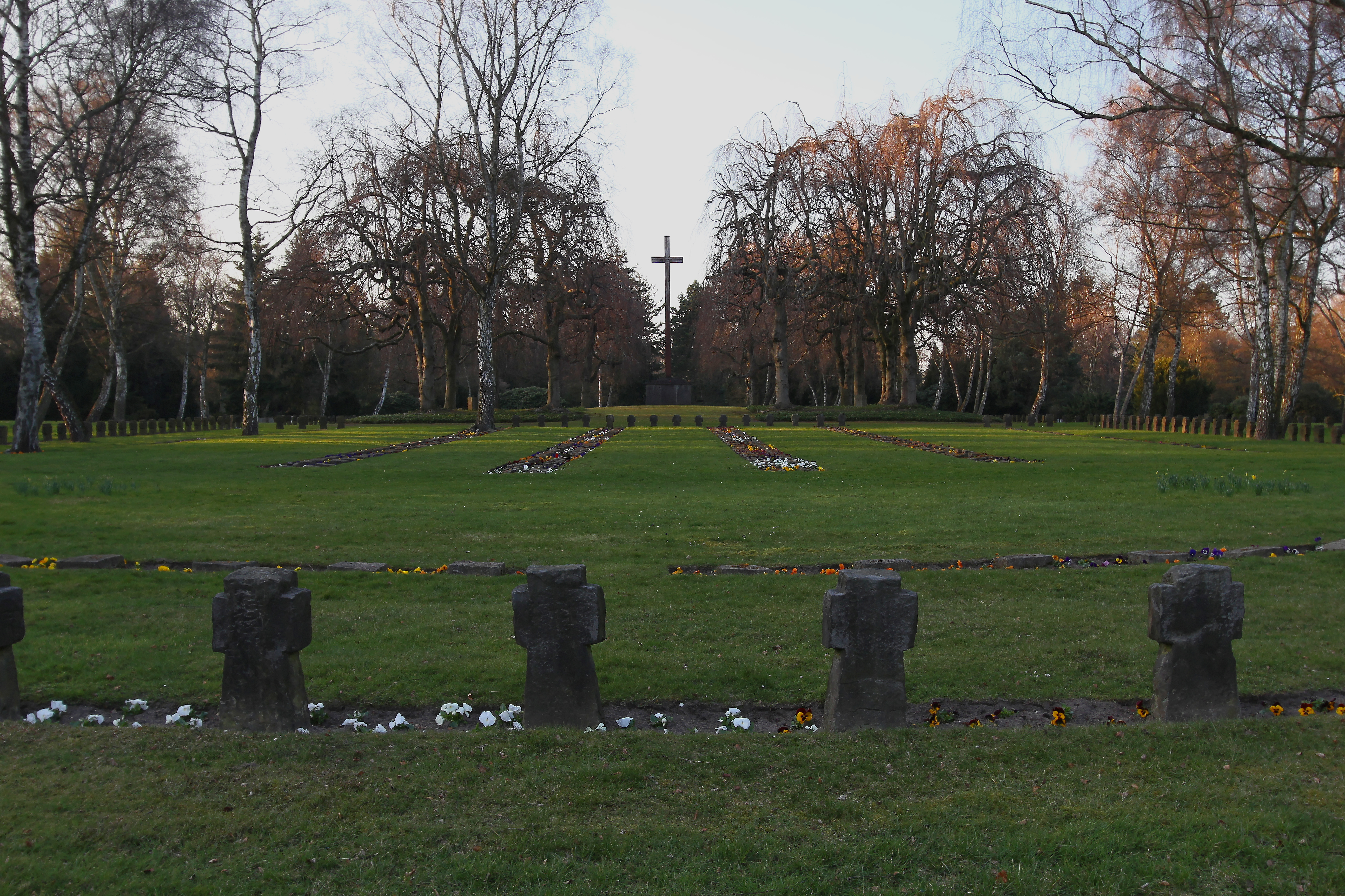 Main cemetery in Hamburg-Altona